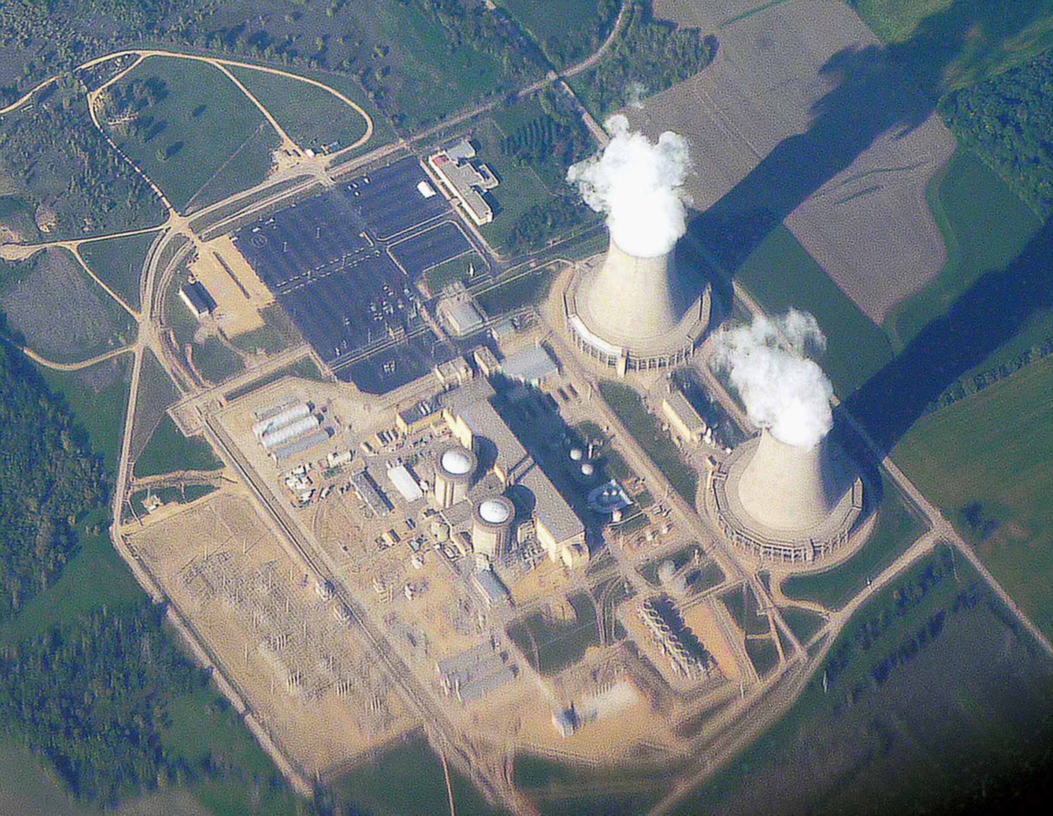 Aerial photo of Byron Nuclear Generating Station, Illinois, USA.